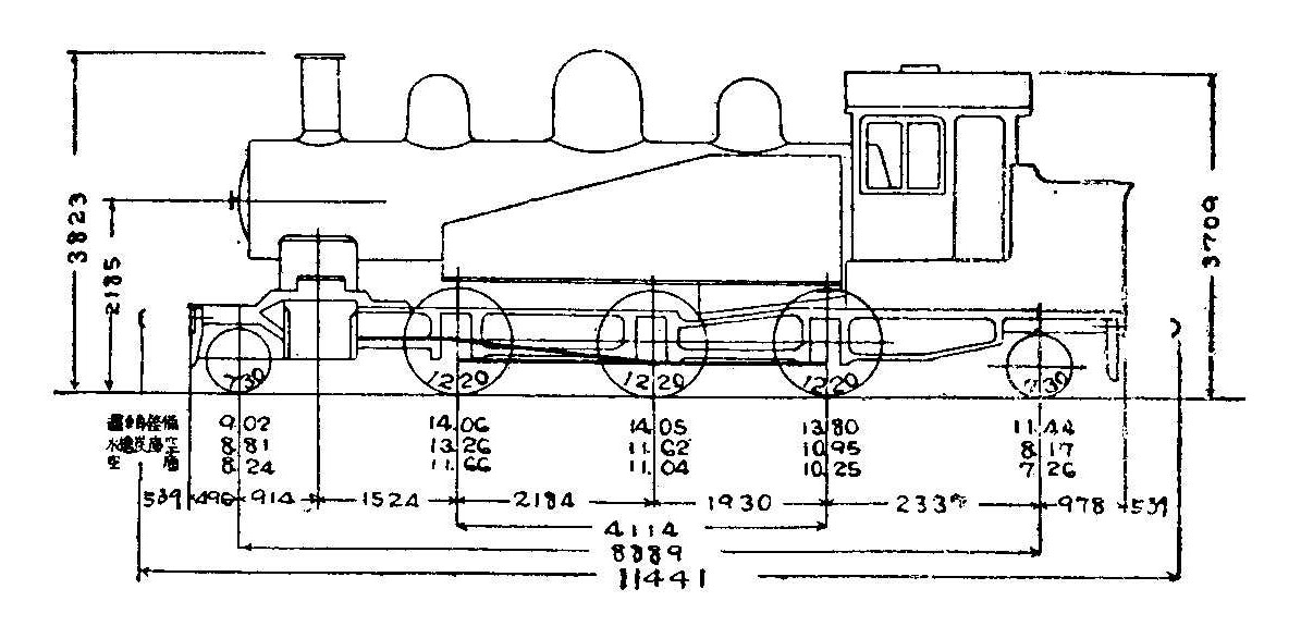 Type Drawing of JGR 3100 type steam locomotive (refined)